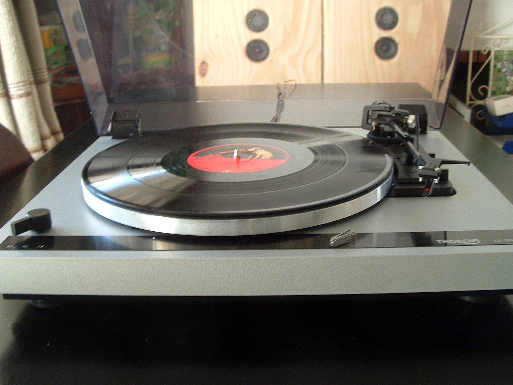 Thorens TD190-1 + Ortofon OMB10 cartridge